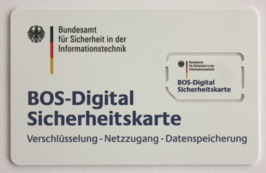 BSI security smart card for use in German Public Safety Digital Radio